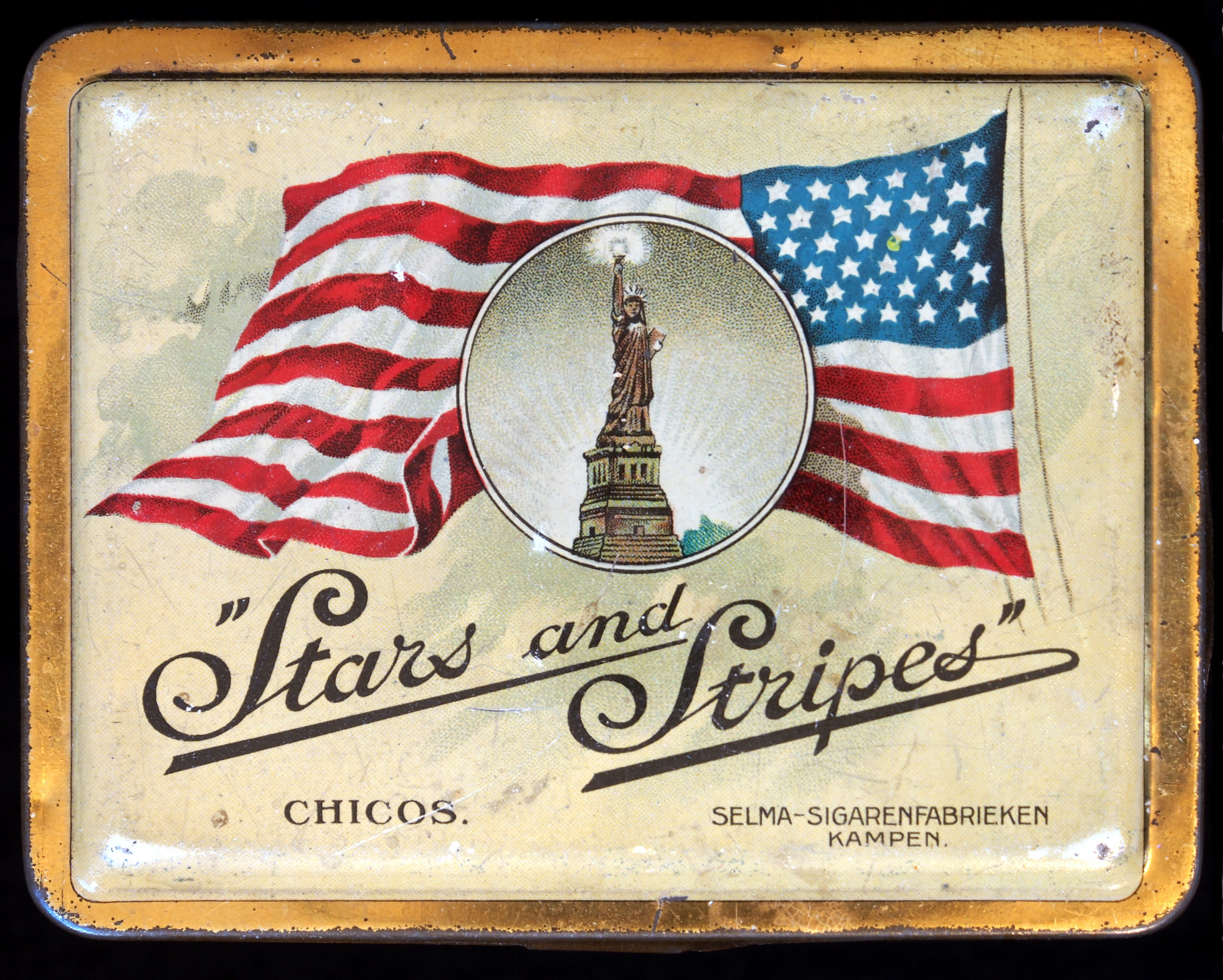 Very old product that is not produced and not sold any more. Note that some tins may look the same, but when looked for carefully there are some slight differences! For more info see tincollectors.nl or